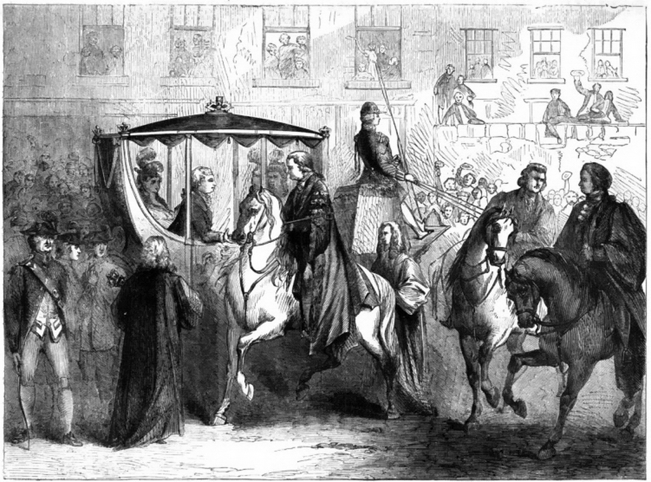 The title is the same as the image caption above and in "Cassell's Illustrated History of England, Volume 5". The number shown is the page number. Follow image link to the full book vol.5.